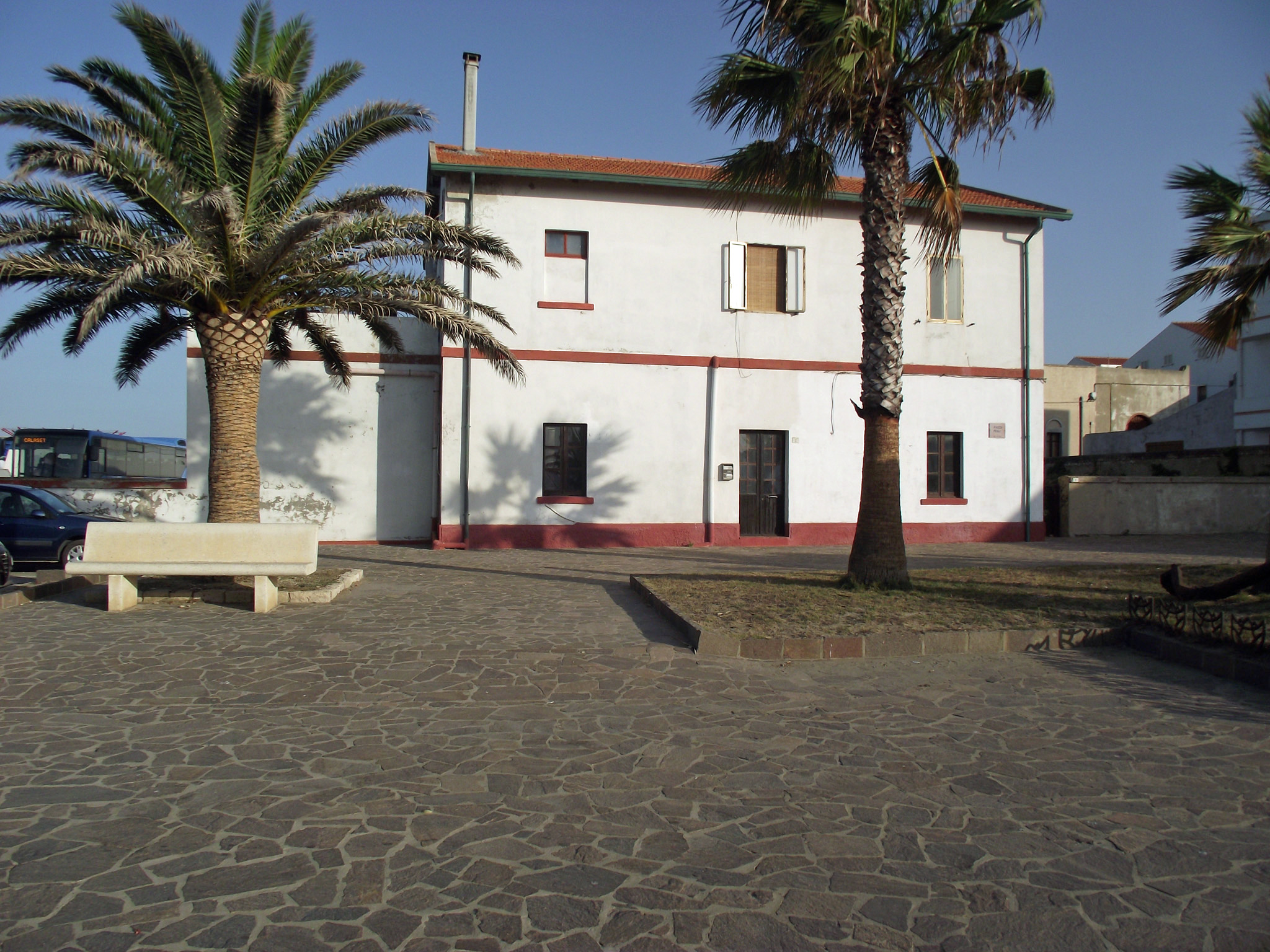 The former FMS railway station of Calasetta, Sardinia, Italy, terminus of the railway Siliqua-San Giovanni Suergiu-Calasetta, closed in 1974.